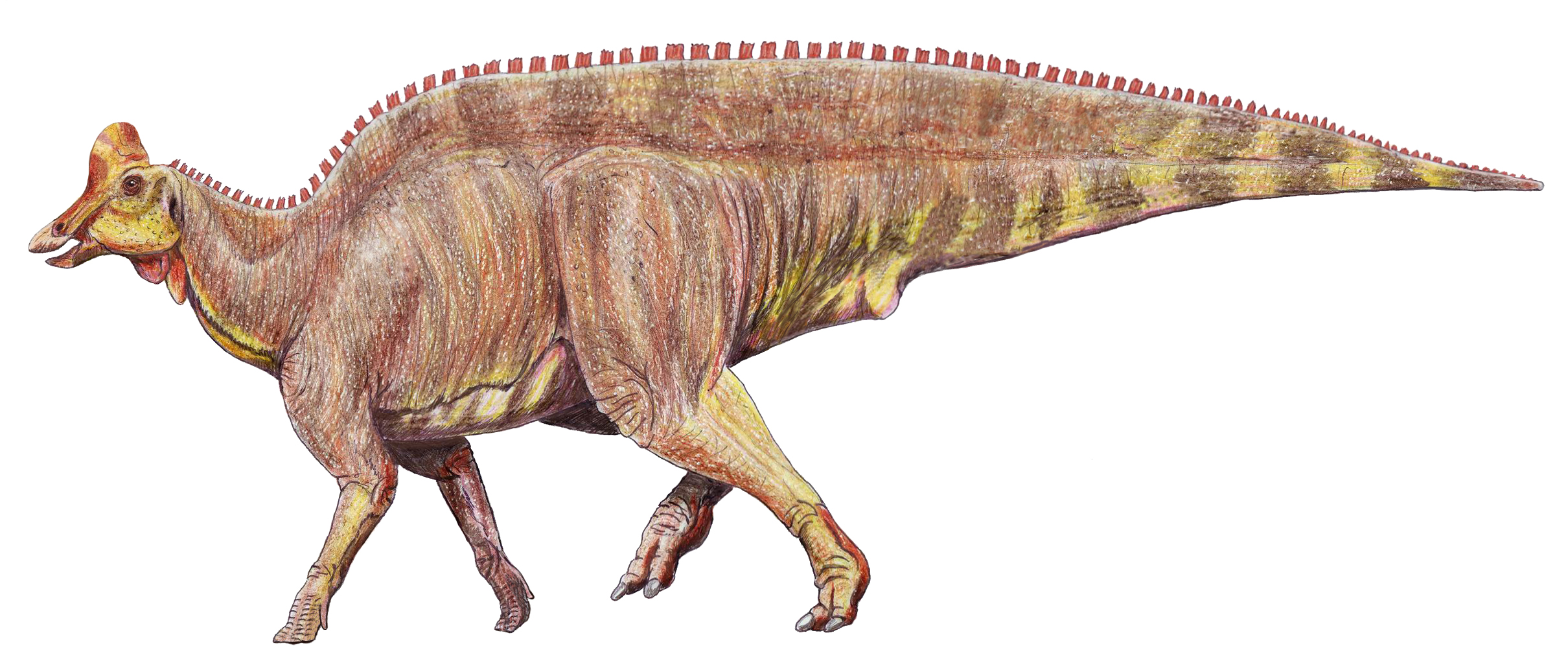 Magnapaulia (formerly Lambeosaurus) laticaudus - giant lambeosaur from Campanian of Mexico. Scalebar = 2 m.